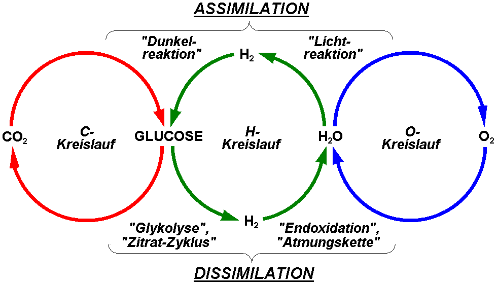 Interconnection between carbon, hydrogen and oxygen cycle in metabolism of photosynthesizing plants